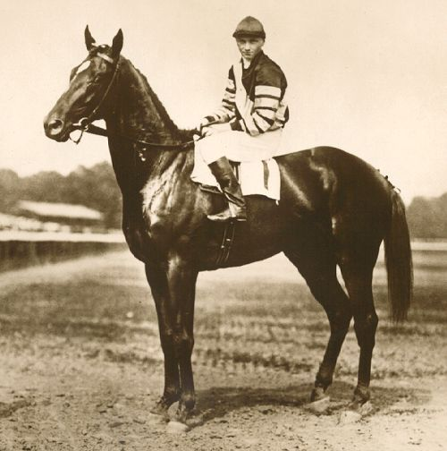 Photo is in the Public Domain as Man O' War ran his final race in 1920. from